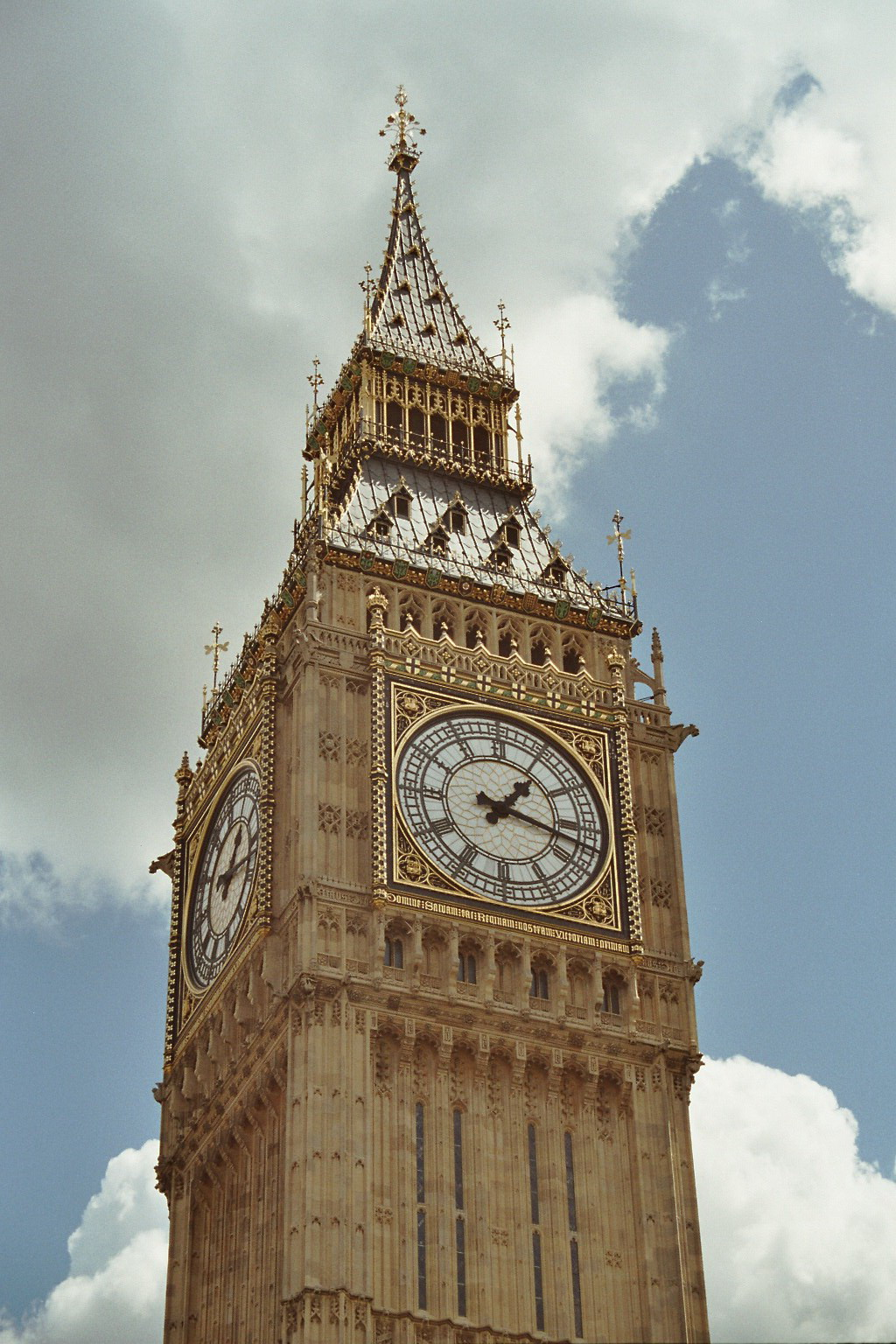 Big Ben, Clock tower